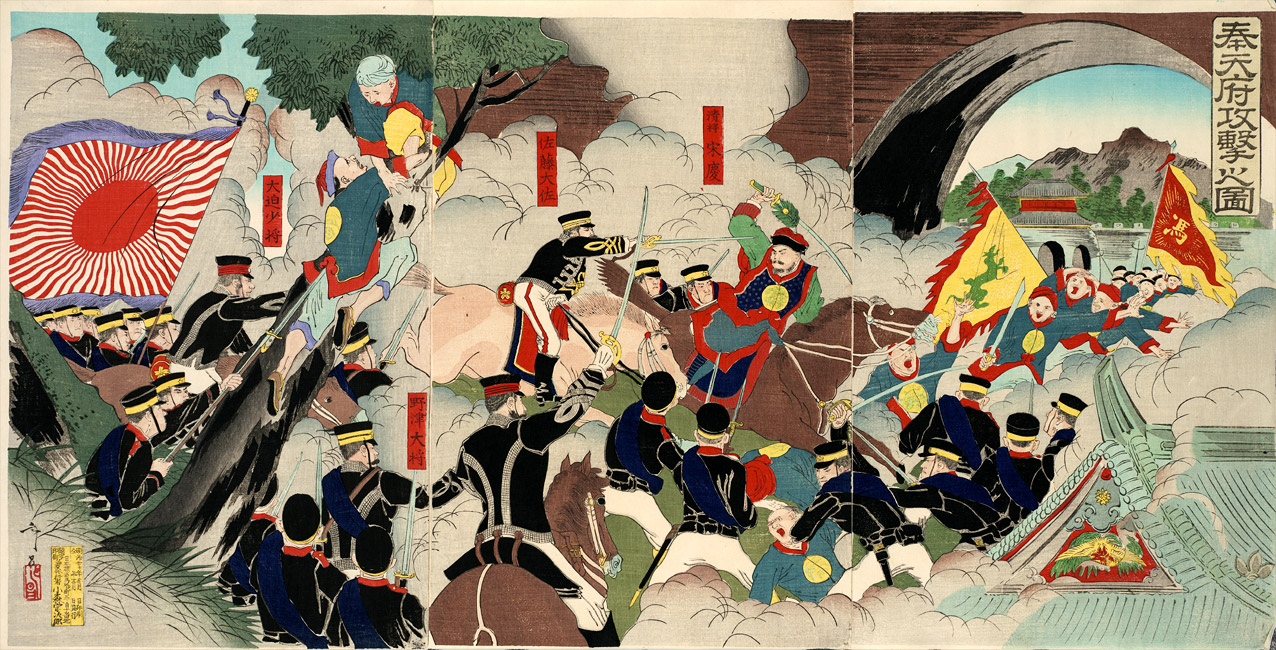 “The Battle of Mukden”